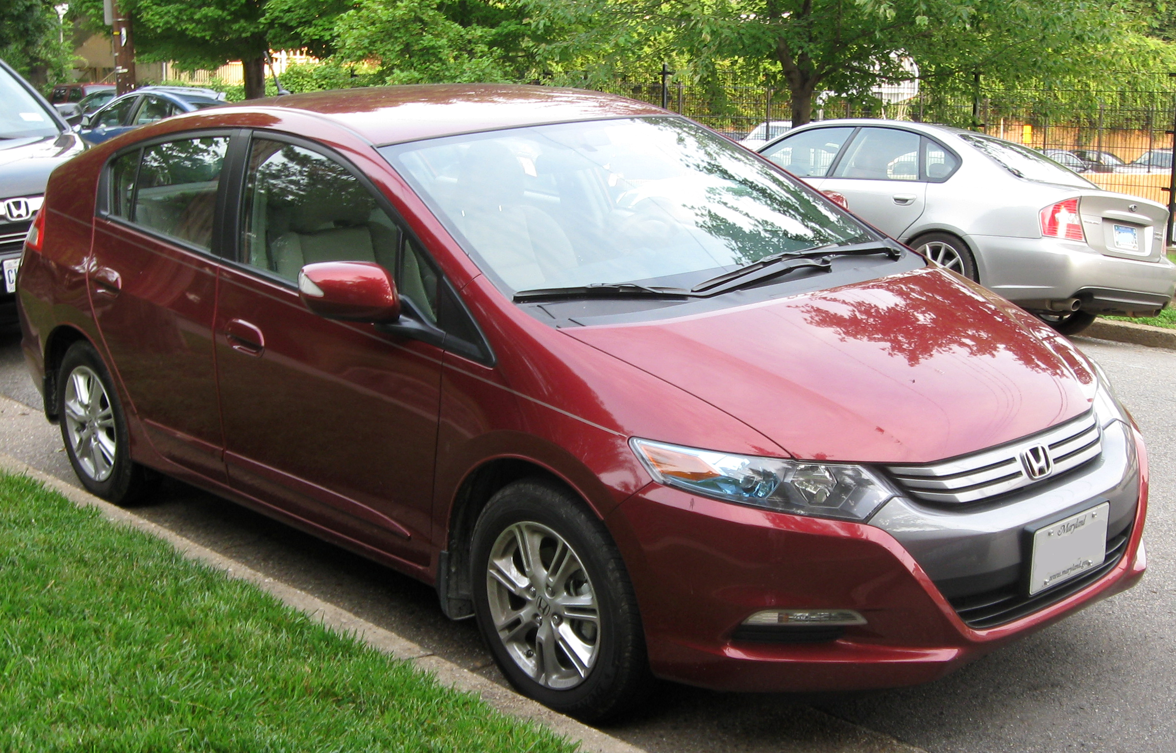 2010 Honda Insight photographed in Washington, D.C., USA.